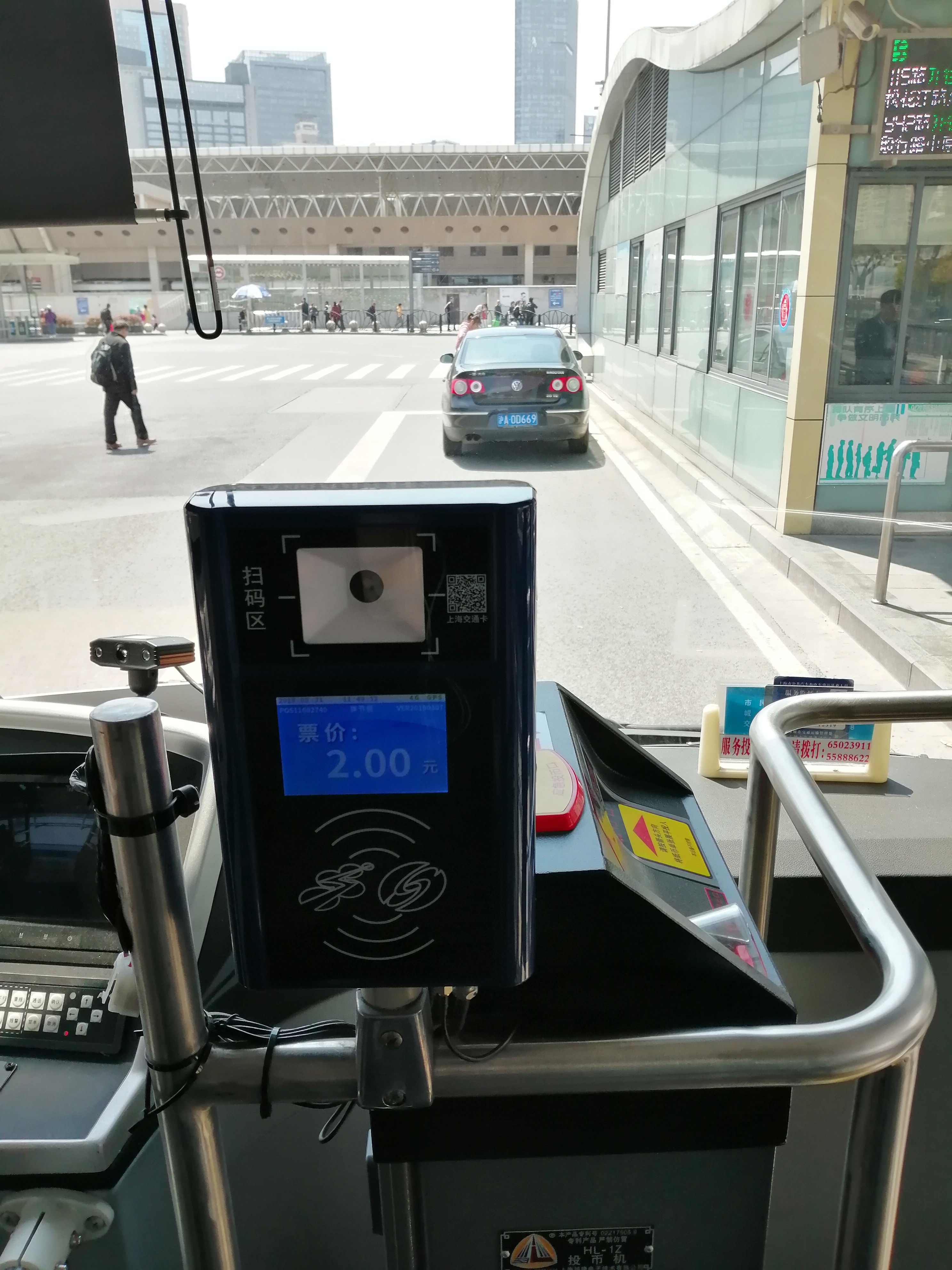 A new card and QR Code reader on the bus in Shanghai, which supports Transport Card, Alipay, WeChat Pay and UnionPay Cloud Quick Pass. 中文（中国大陆）: 上海公交车上搭载的新型刷卡器，支持交通卡、支付宝、微信和云闪付。